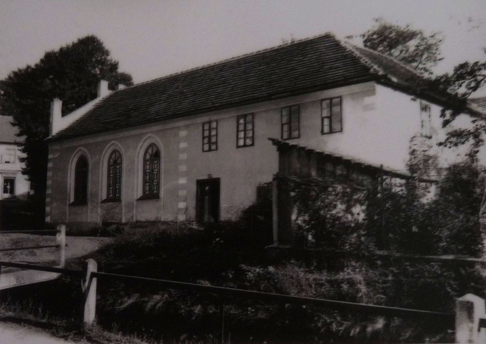 Synagogue in the town of Černovice, Pelhřimov District, Czech Republic - - a copy of a photograph taken before WWII, displayed in the ceremonial hall of the Jewish cemetery in Pacov.